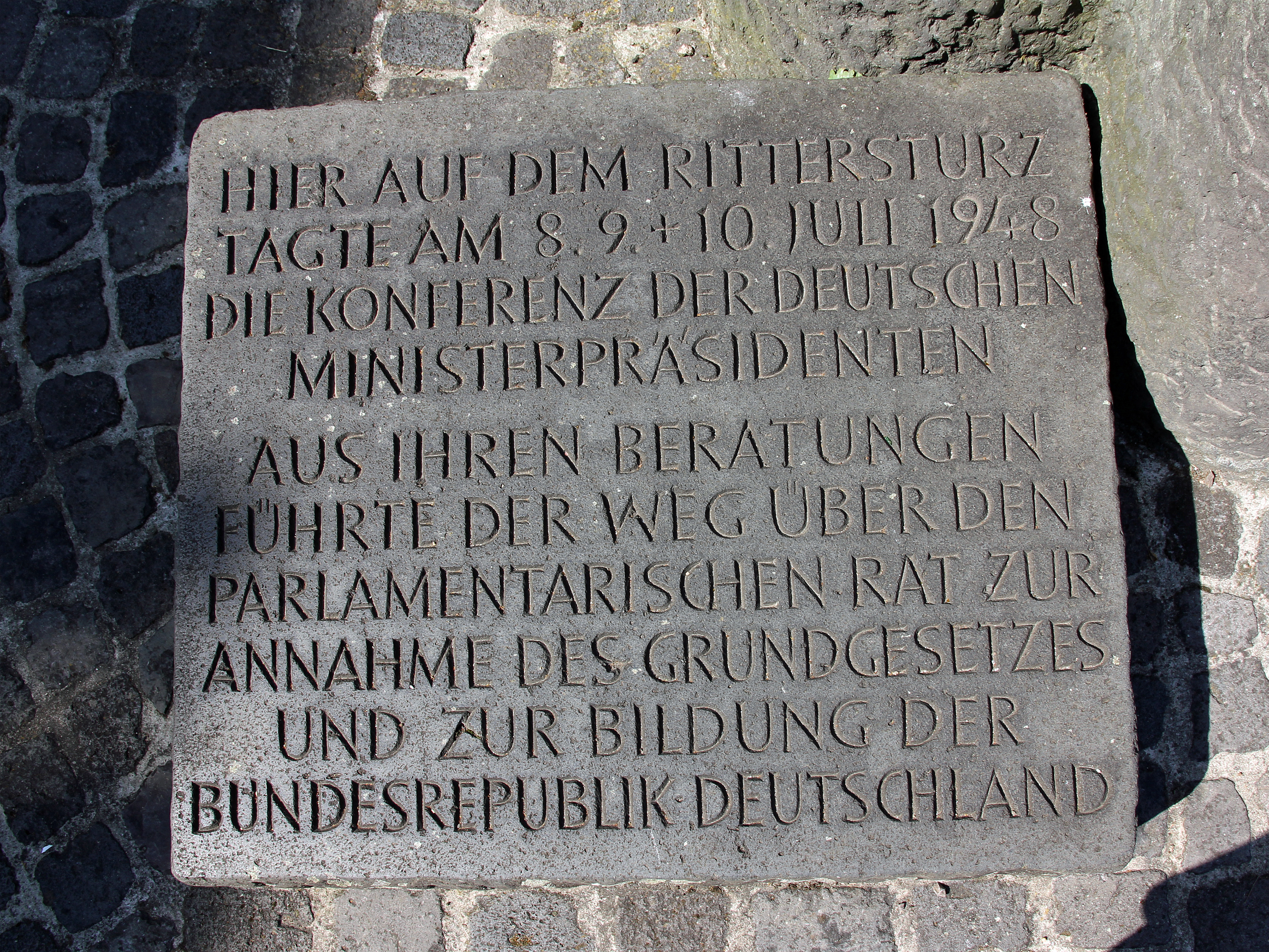 Rittersturz memorial in Koblenz